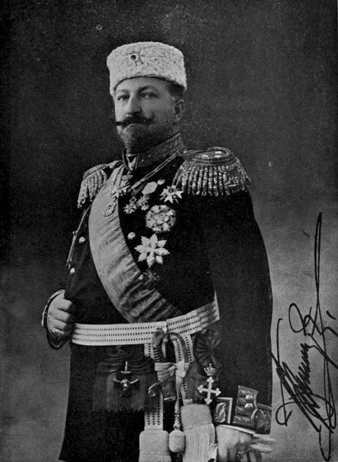 Original description: "His Royal Highness Prince Ferdinand of Bulgaria"